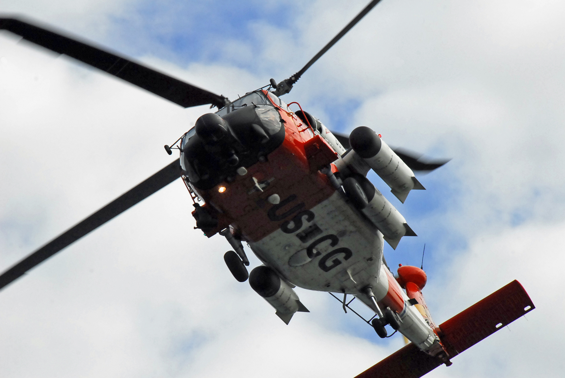 Coast Guard MH-60 Jayhawk helicopter pilot Lt. Cmdr. George Cottrell takes off with a crew from Air Station Kodiak to participate in a hoist demonstration in Womens Bay, Alaska, July 25, 2013. Crews at Air Station Kodiak train regularly with Coast Guard boat crews to prepare for deployment into some of the most challenging environmental conditions in the world. (U.S. Coast Guard photo by Auxiliarist Tracey Mertens)